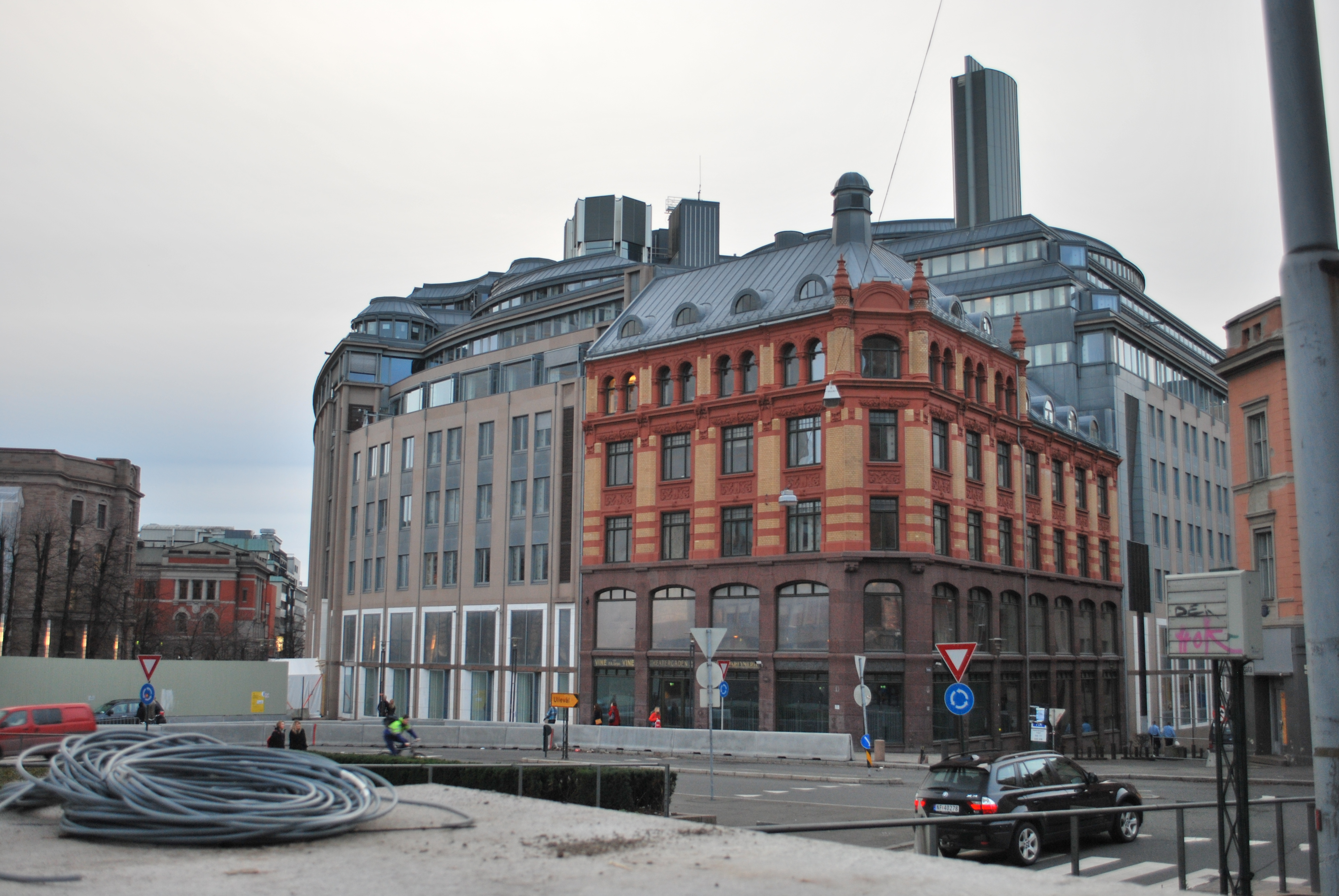 Regjeringskvartalet building R5 with Togahjørnet (old preserved building)